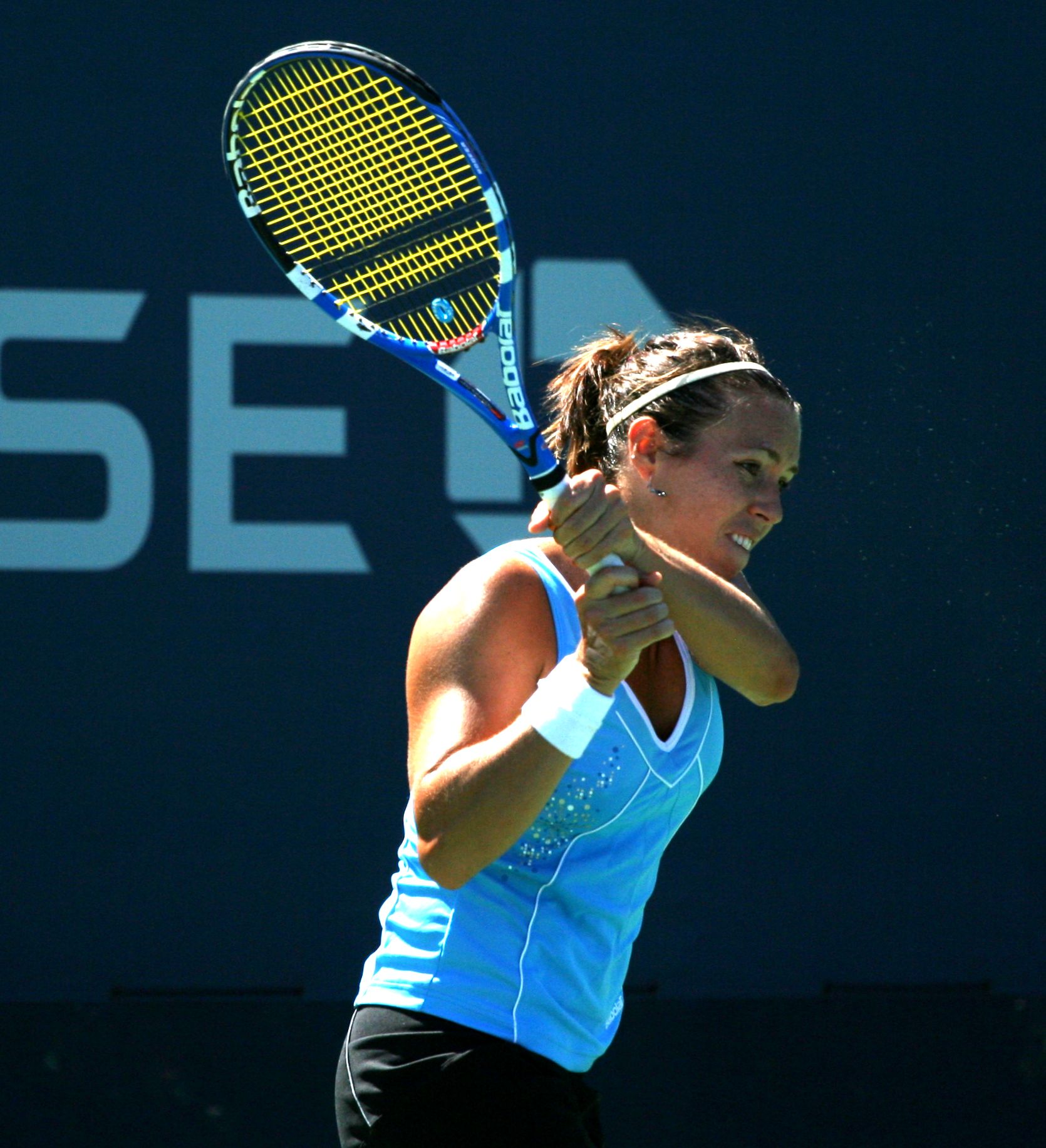 U.S. Open Monday, Aug. 29